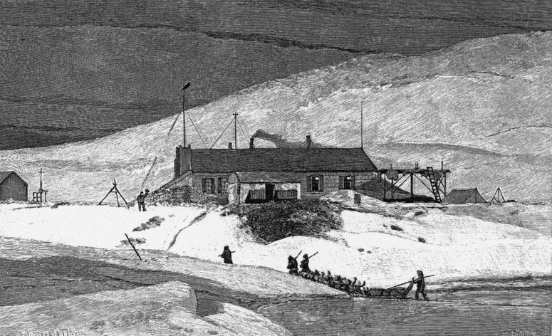 Fort Conger, Grinnell Land, May 20, 1883 (East side of house)